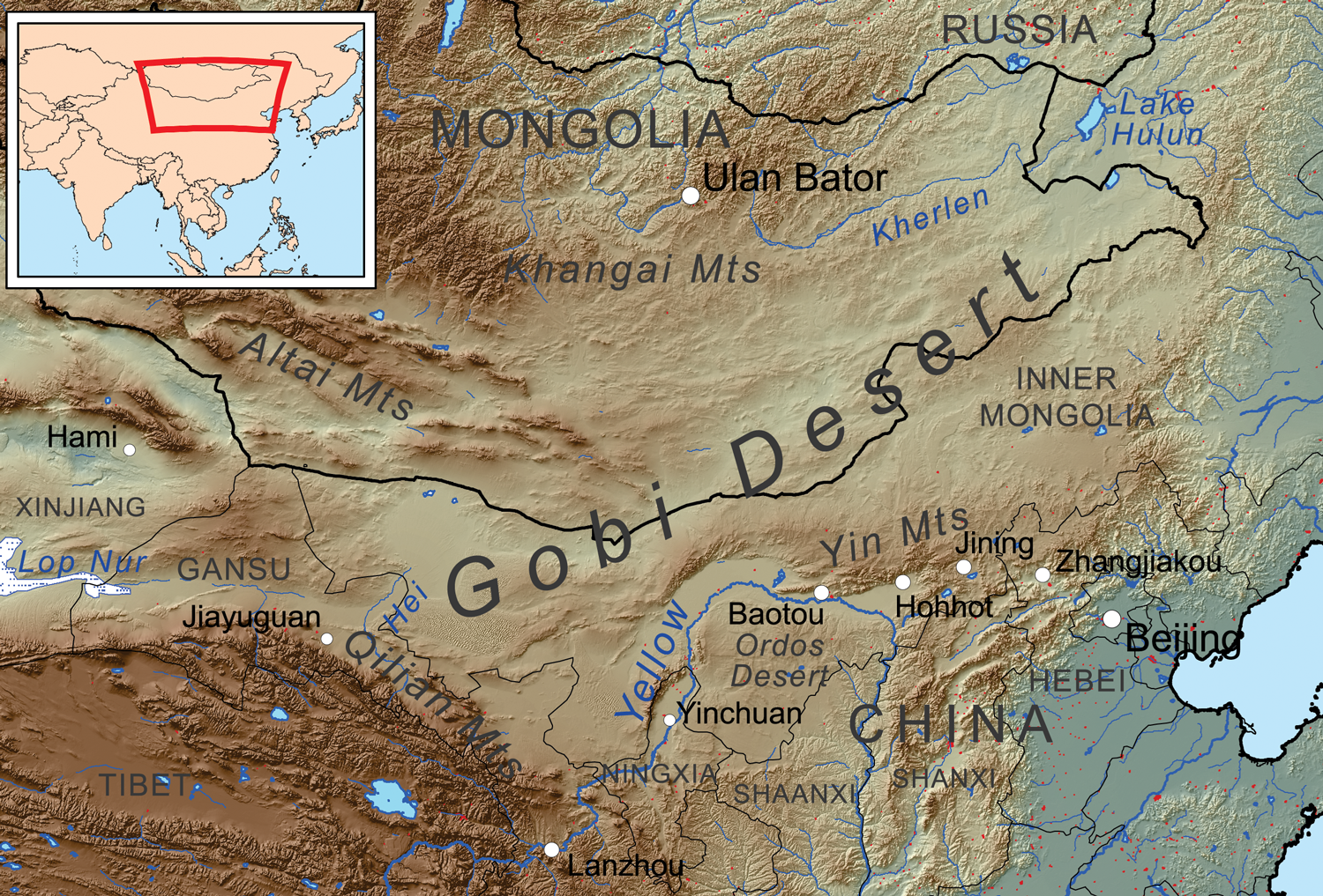 Map showing the Gobi Desert and surrounding area.